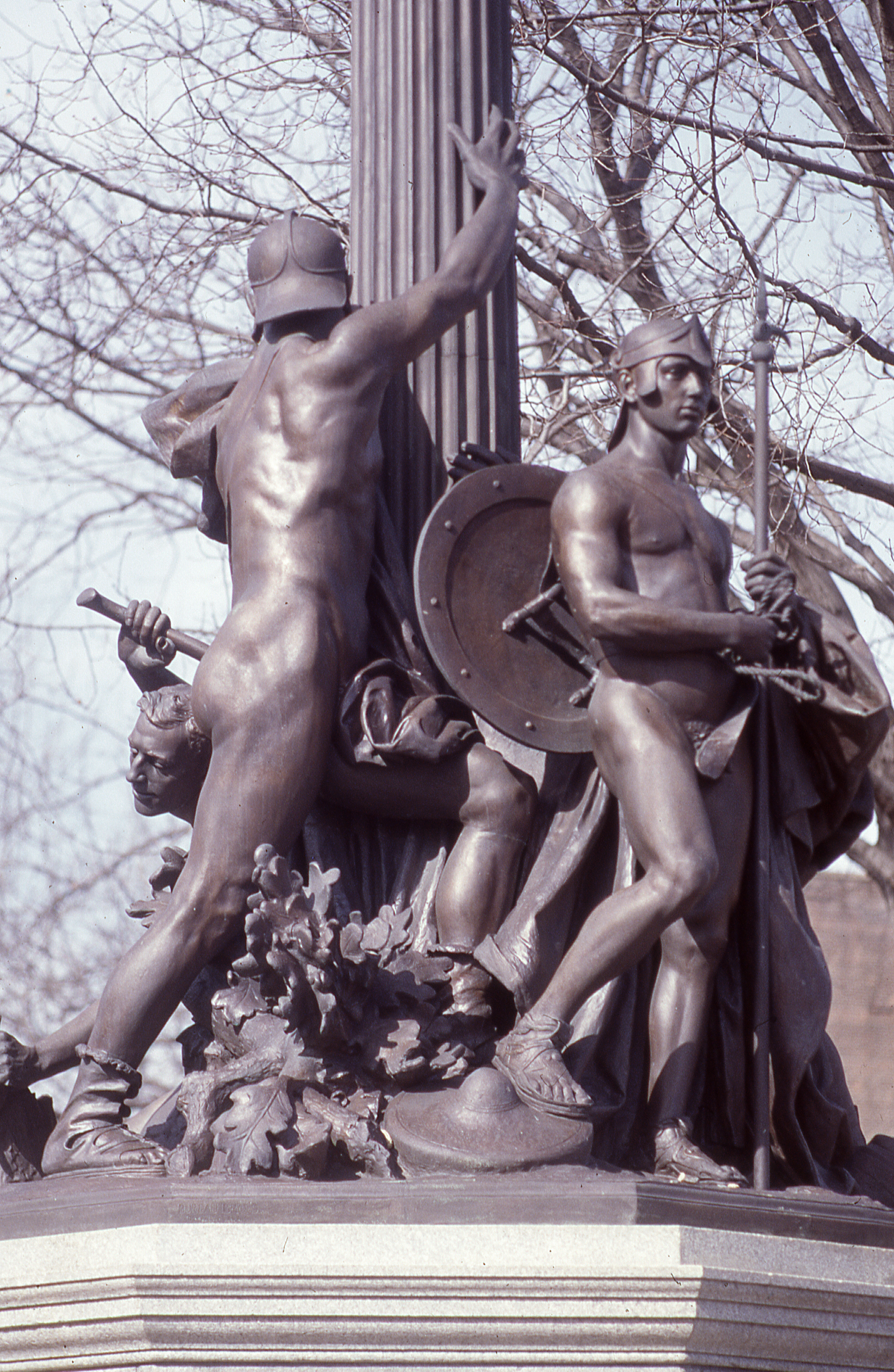 Bronze statue on stone pedestal, Newark's official memorial to each of the 20,863 soldiers and sailors of World War I.